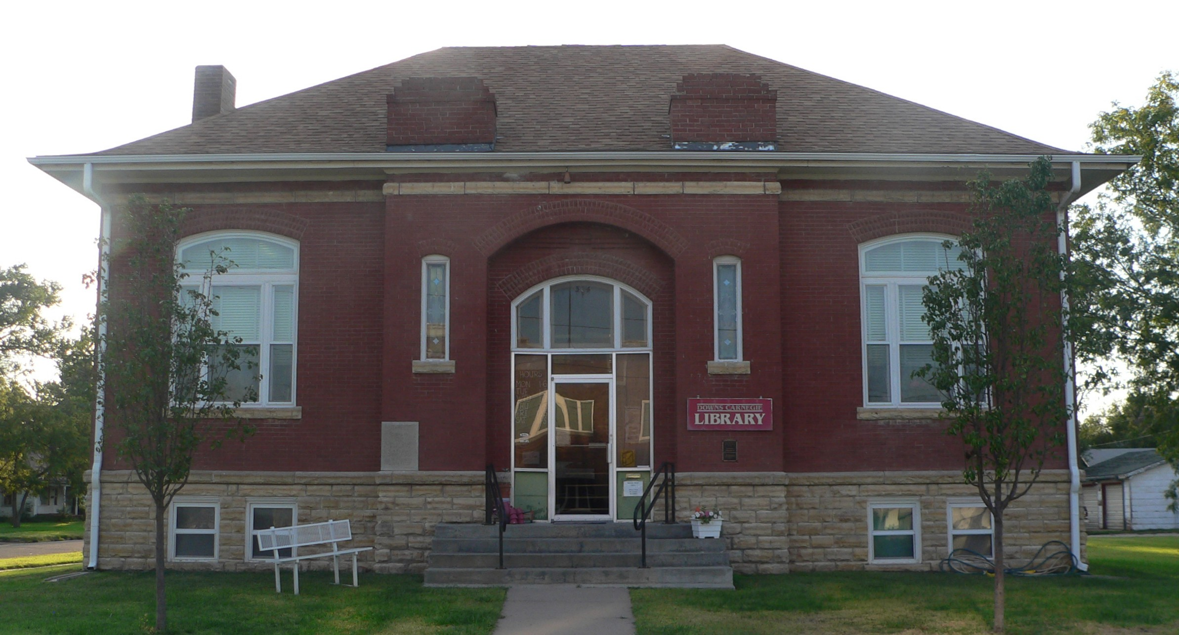 Carnegie library at 504 Morgan Avenue in Downs, Kansas; seen from the east., across Morgan.